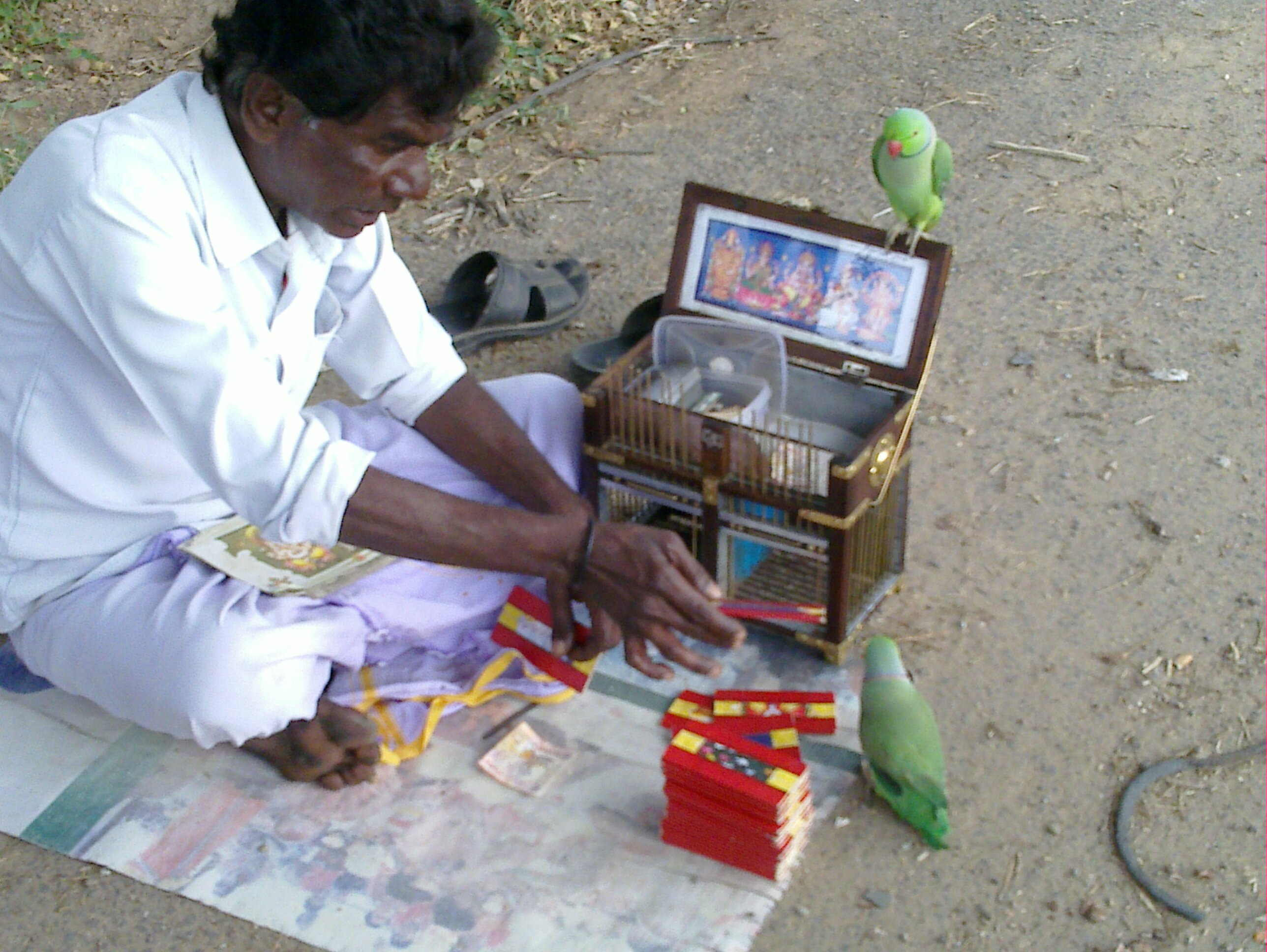 Rose-ringed Parakeets trained to pick cards for astrology.